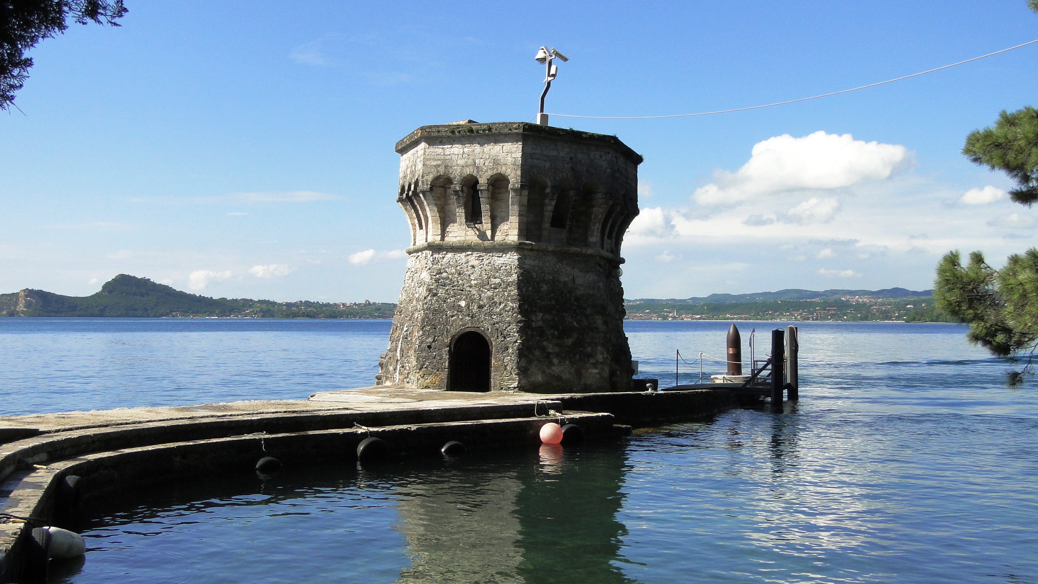 Quay and tower stump on Isola del Garda, Lake Garda, Italy